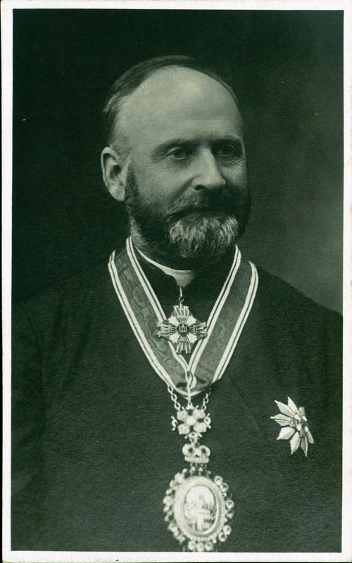 Bishop Pranciškus Petras Būčys (1872–1951). He wears the Order of the Lithuanian Grand Duke Gediminas received in 1928, but not yet a long bear that he grew when he became bishop in 1930.